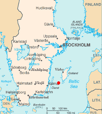 Place where Swedish cargo ship MV Finnbirch sunk in 1. November 2006, is tagged red circle.